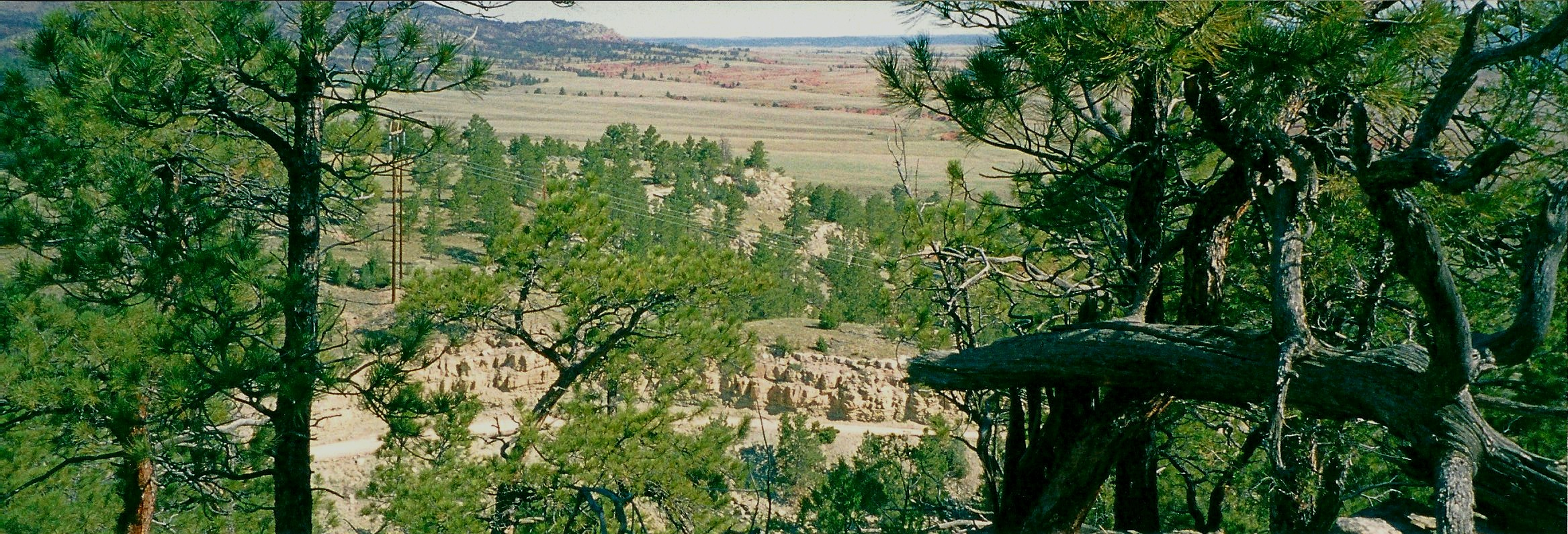 Panorama of the southern Black Hills of South Dakota taken near Dewey.